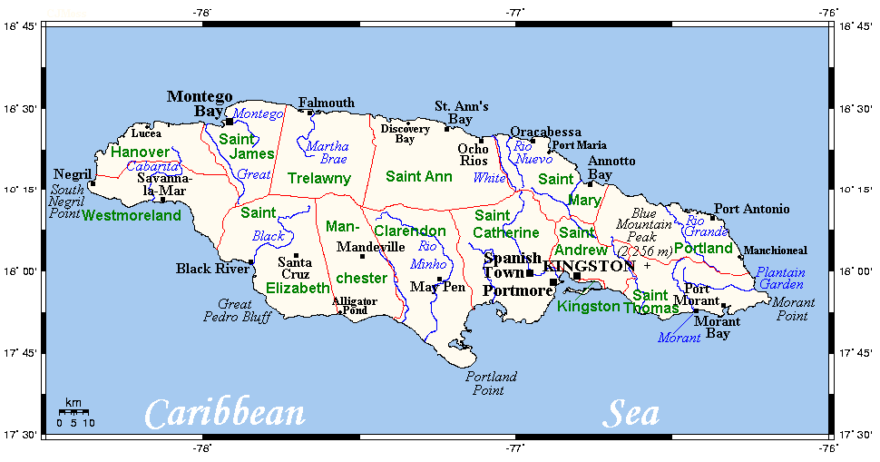 A map showing Jamaica's cities, main towns, parishes and rivers.